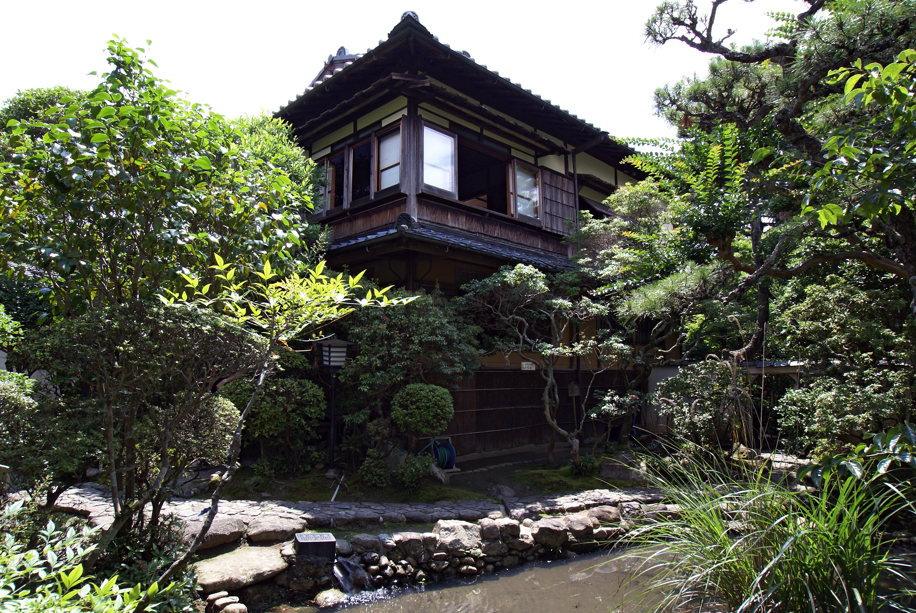 Naoya Shiga Old House in Takabatake, Nara, Nara prefecture, Japan